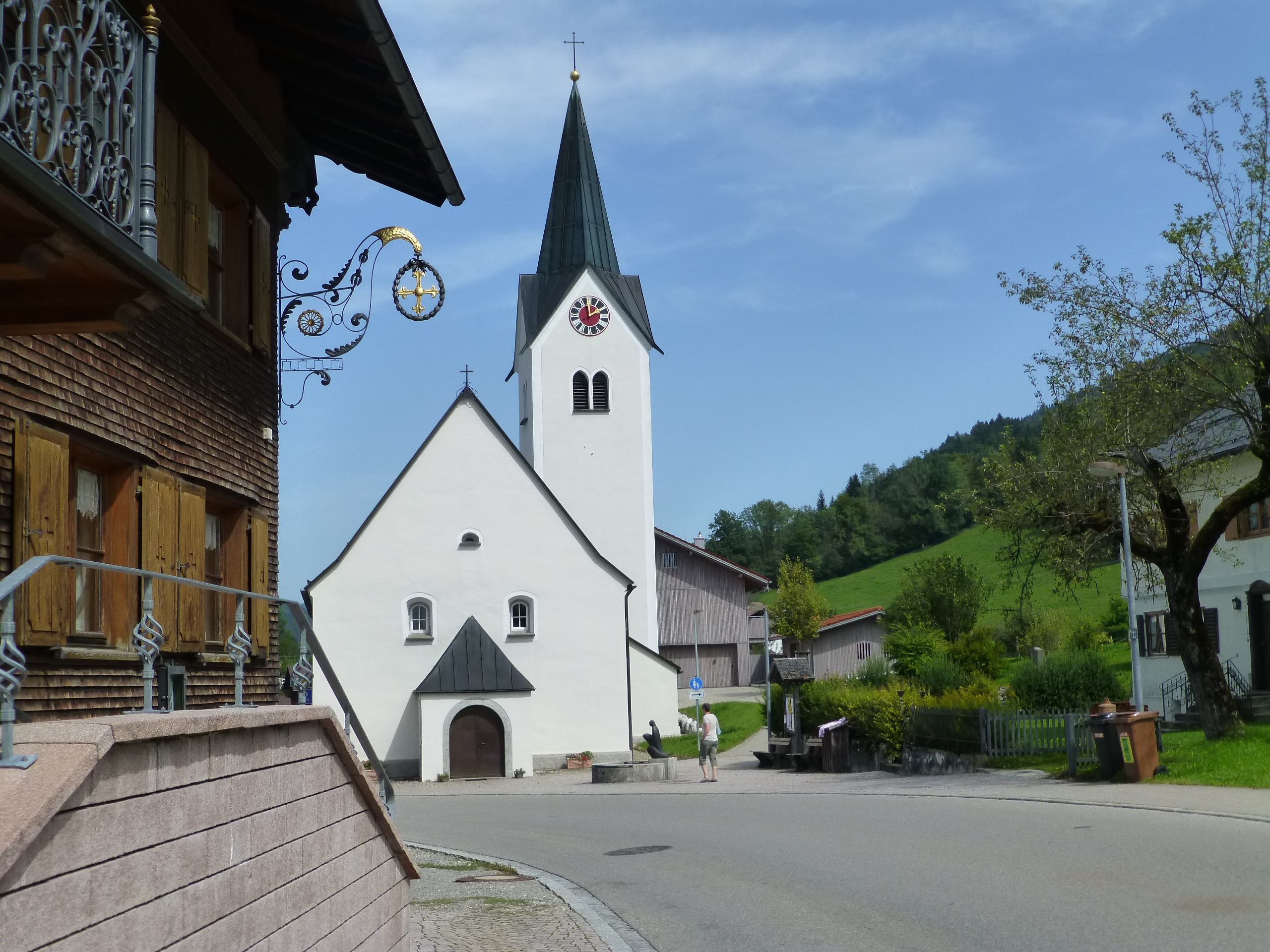 House am Cross and church in Aach, district Oberallgäu, frontier Bavaria-Vorarlberg.